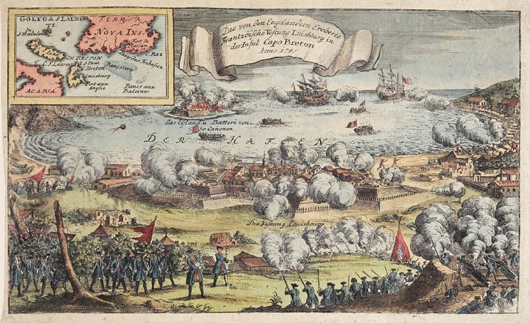 Attack on Louisbourg in 1745, during the War of Austrian Succession.